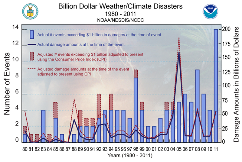 Total extreme weather cost and number of extreme weather events costing more than $1 billion in the United States from 1980 to 2011, graph